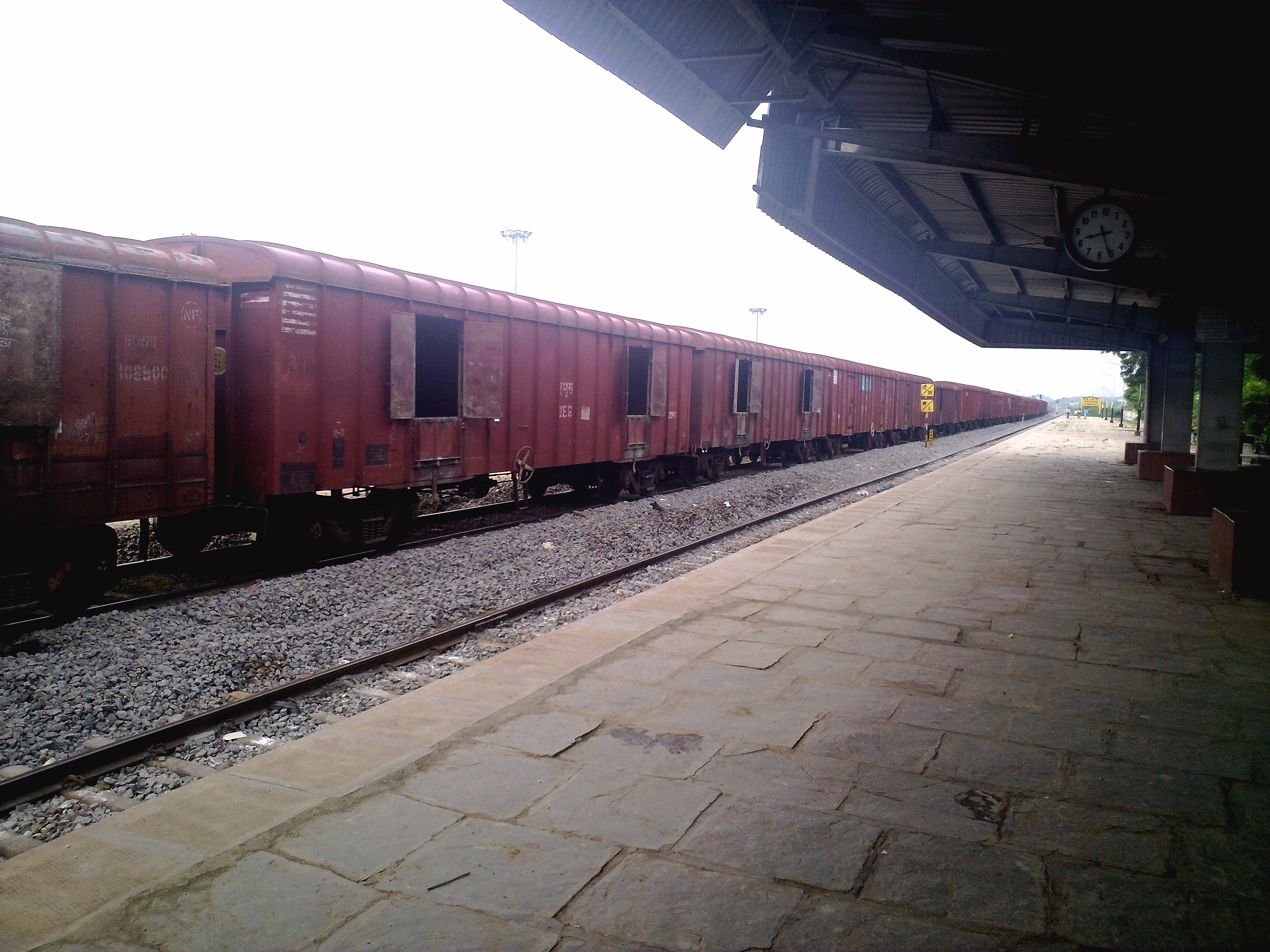 Karimnagar railway station